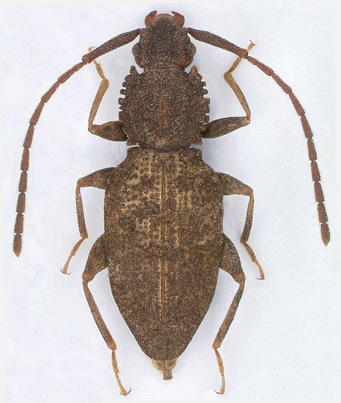 Dorsal habitus AutoMontage photo of Brontopriscus sinuatus